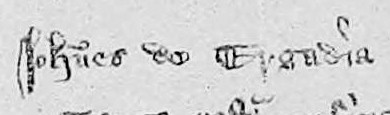 Excerpt from a nineteenth-century facsimile of a charter of John Gallda MacDougall to his father's sister, Mary, wife of John of Stirling, concerning the lands of Rathorane, granted 8 September 1338.